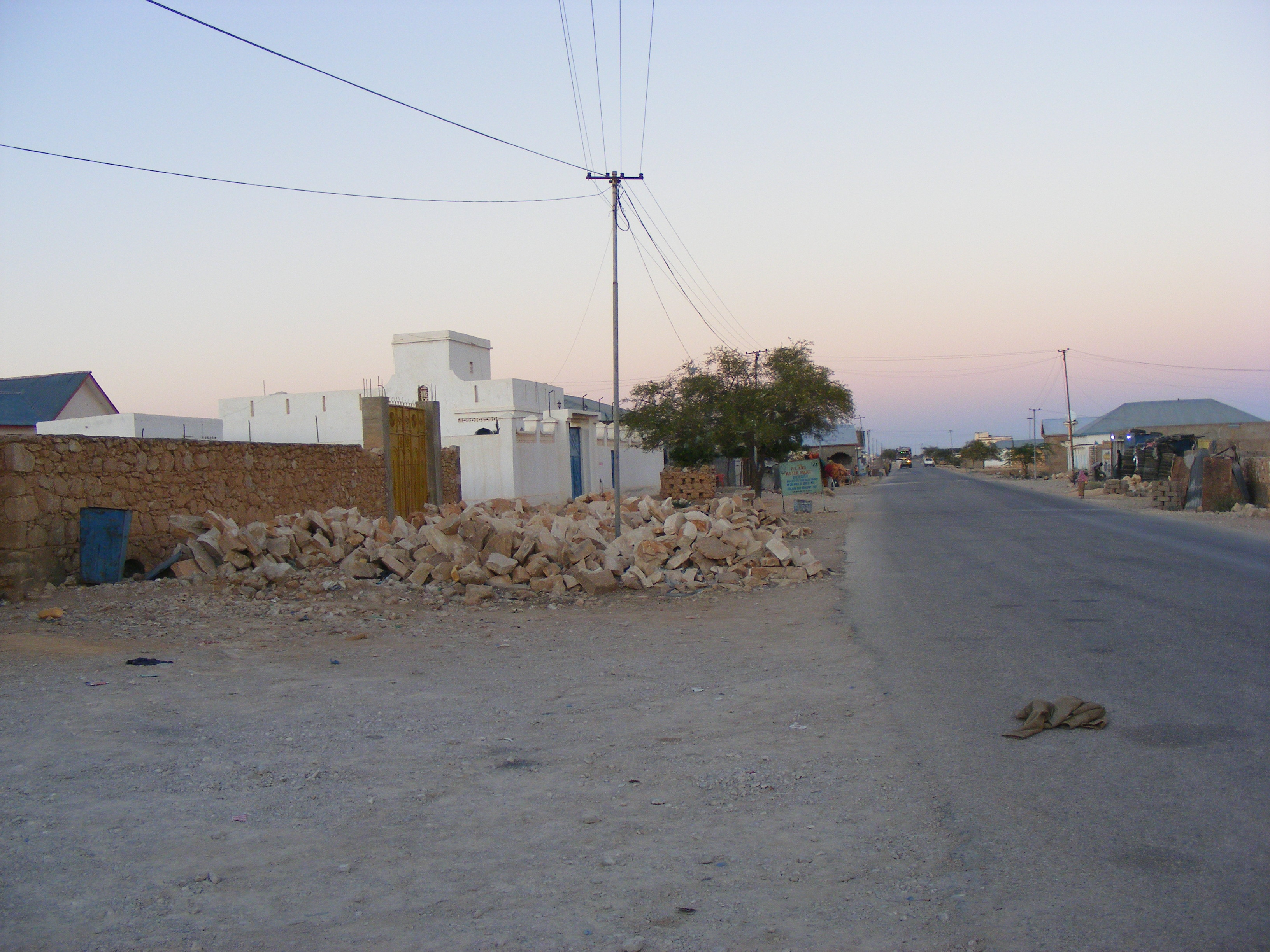 Scenes of Qardo